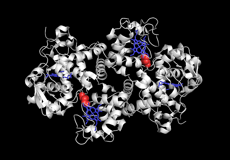 Structure of a cytochrome c peroxidase-cytochrome c complex showing heme groups (blue) and cross linking via disulfide bonds